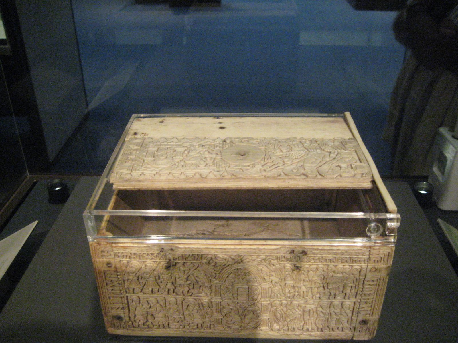 Back panel and lid of the Franks Casket.